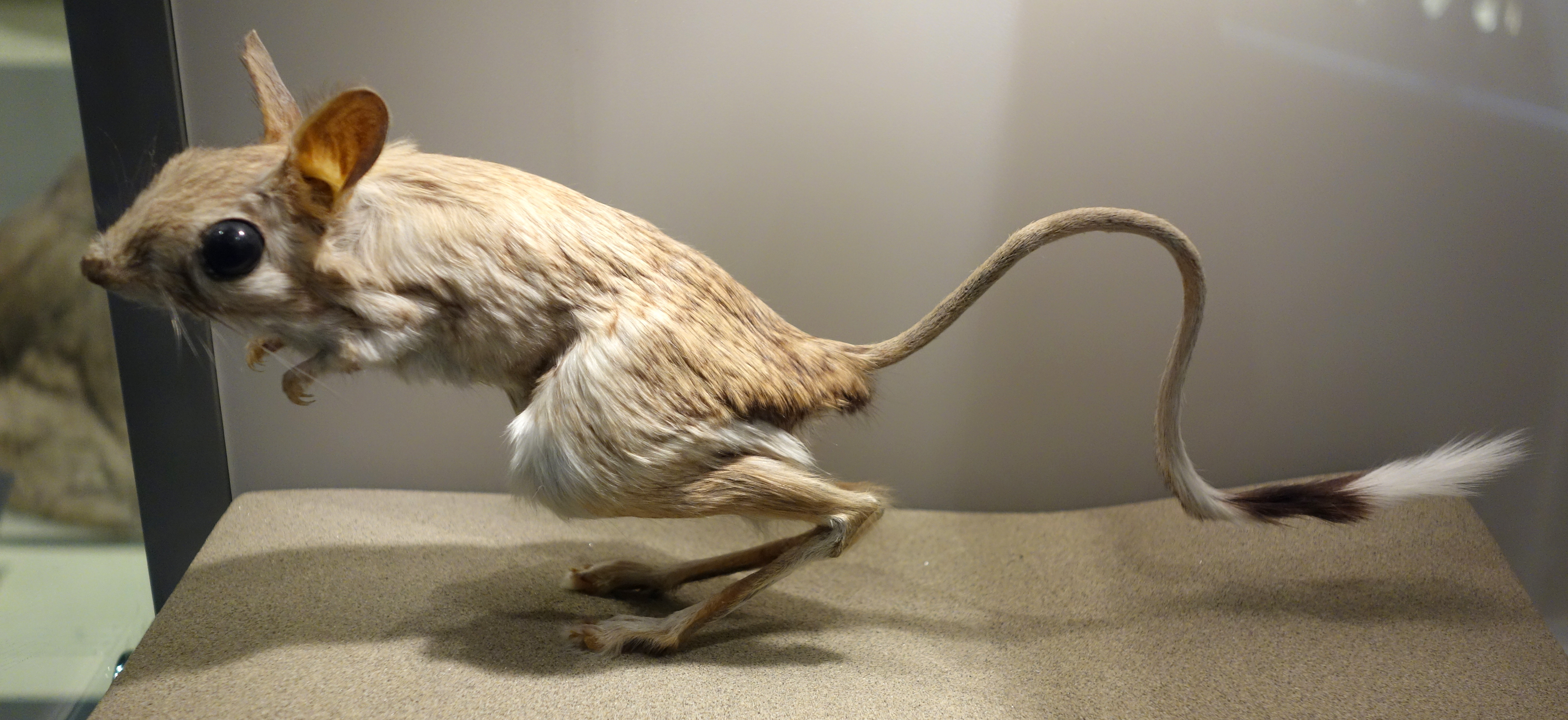 Exhibit in the National Museum of Nature and Science, Tokyo, Japan.